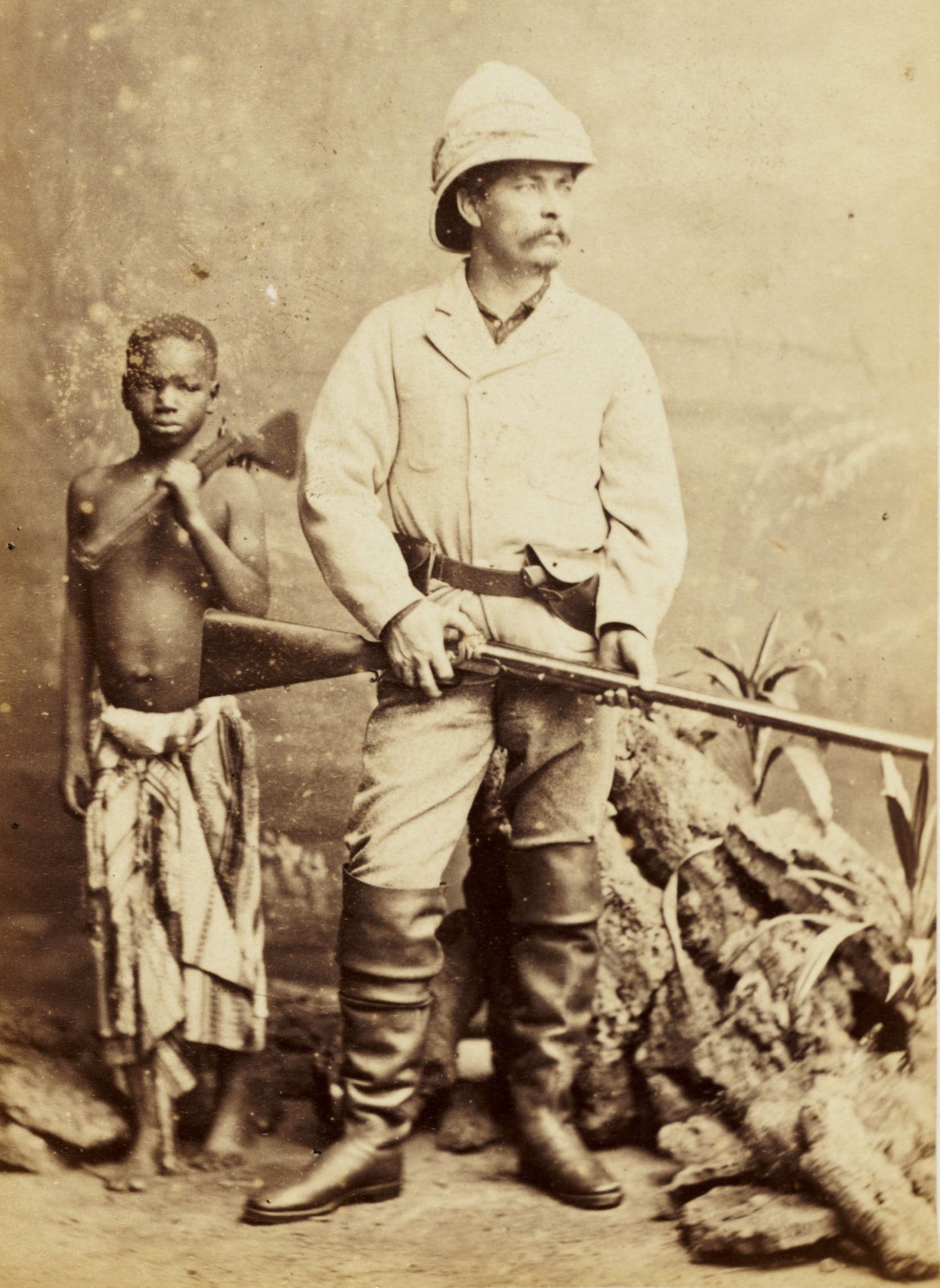 Stanley, a newspaper reporter and tireless self-promoter, was hired by the New York Herald to find the missing Livingstone in 1871, winning himself wealth and reputation. Kalulu is in the backgound.